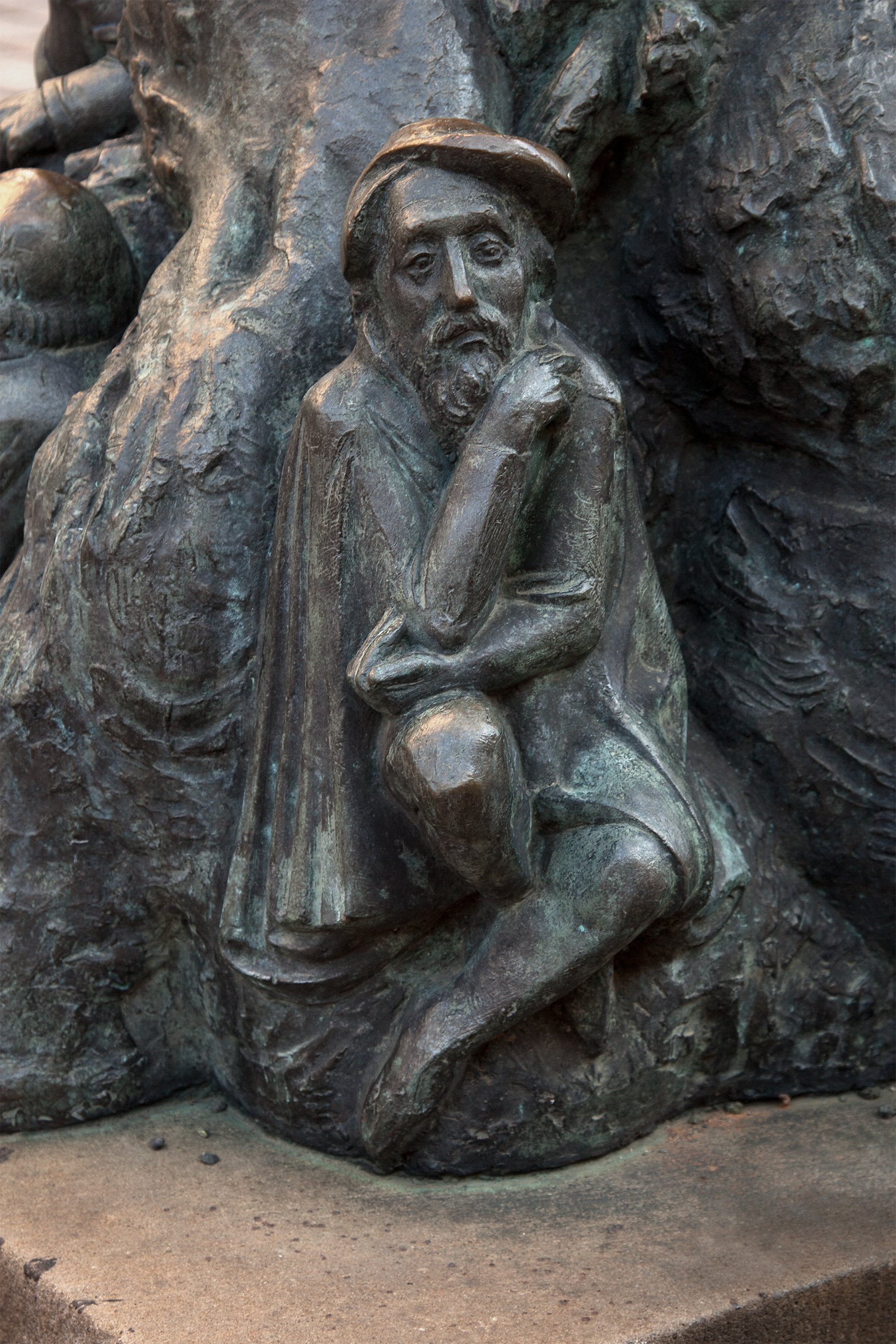 Freiberg, detail of a fountain (Fortuna-Brunnen) showing Ulrich Rülein von Calw